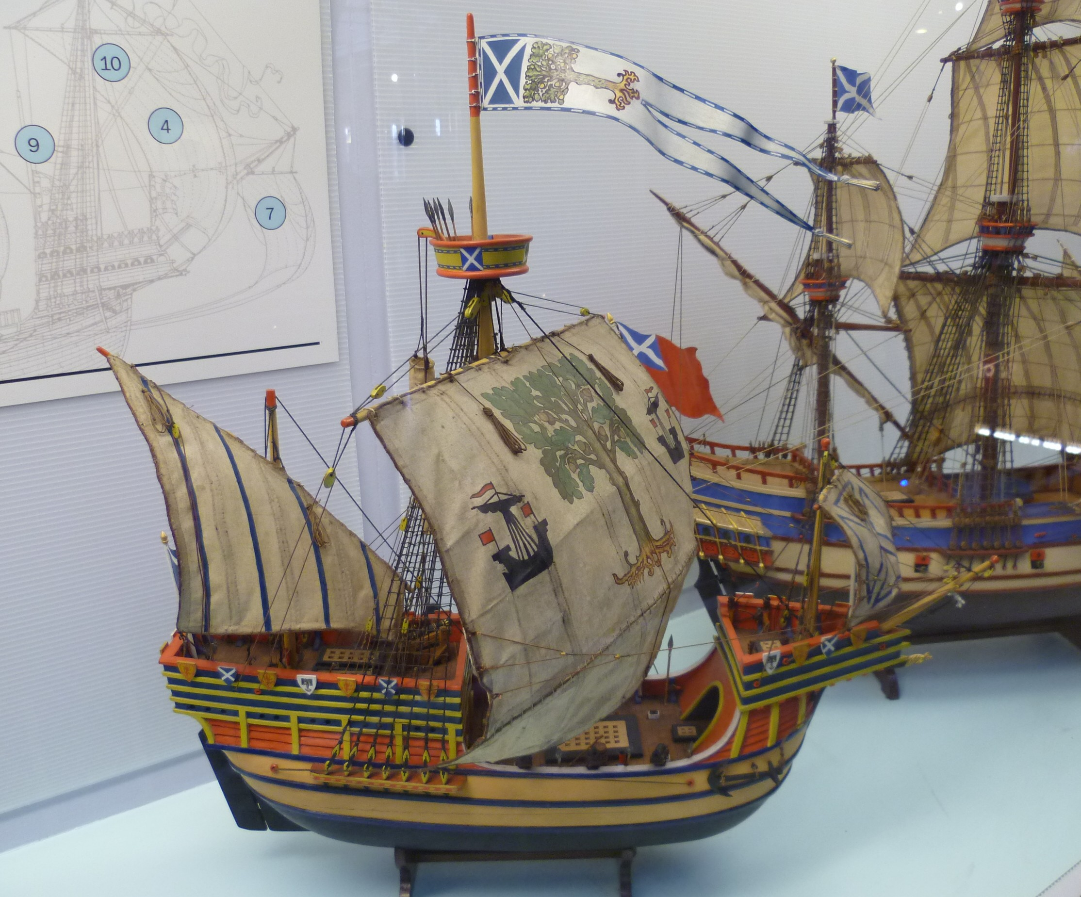 An exhibit in the National Museum of Scotland, Edinburgh.